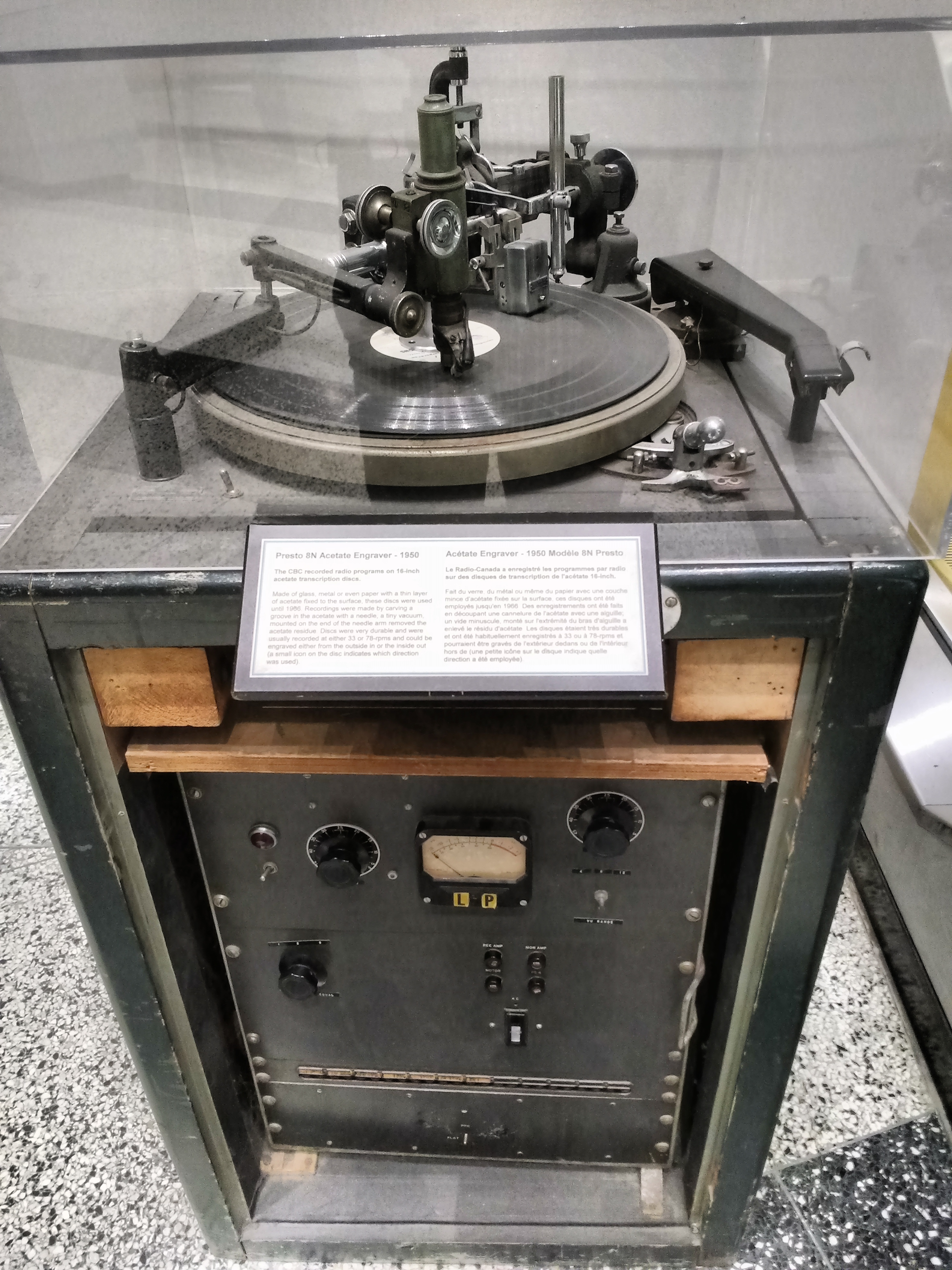 Used to record radio programs on 16” discs. Photo taken by the uploader (who is also the flickr user in question) at the CBC Broadcast Centre in Toronto.